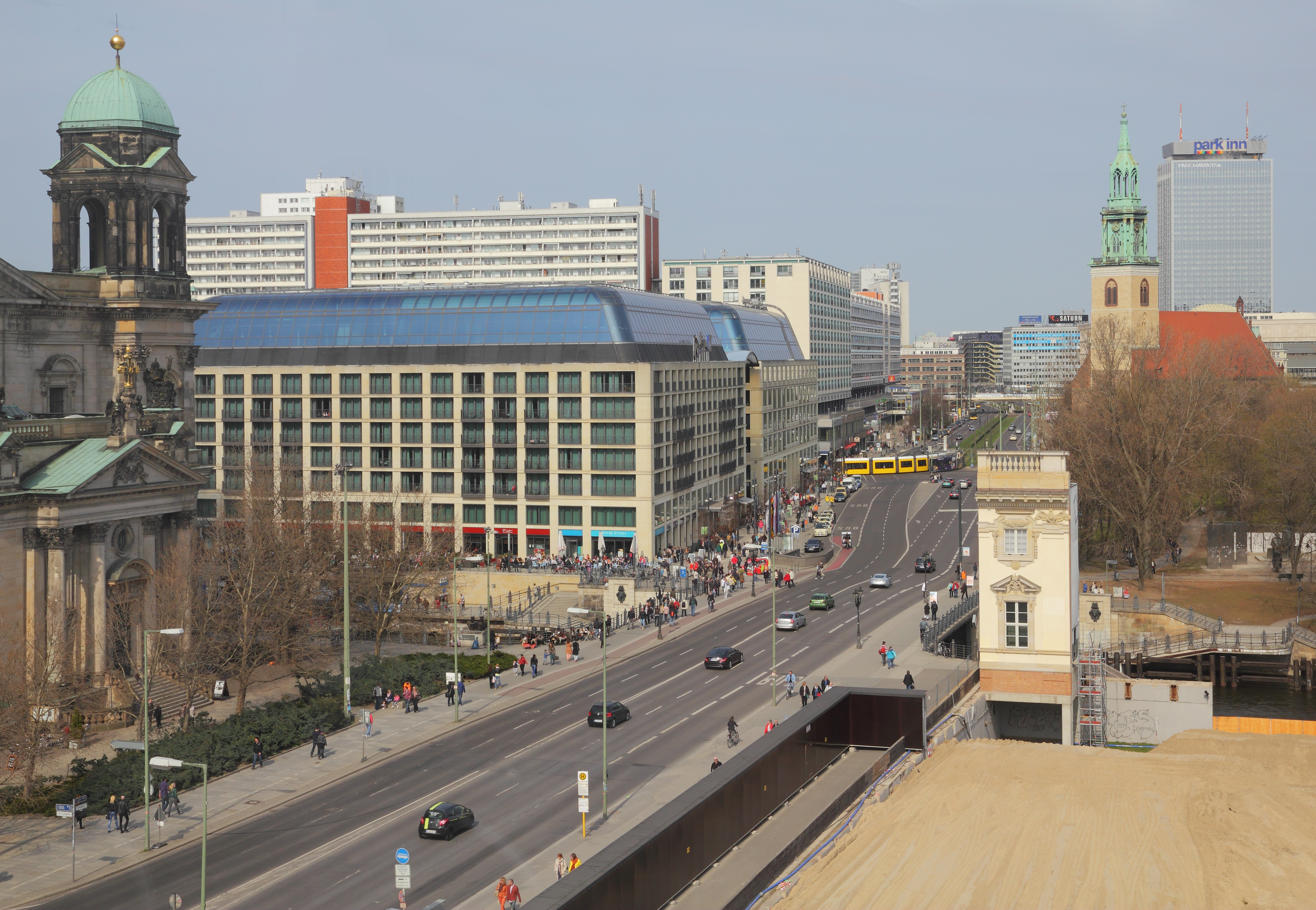 View of Berlin from Humboldt-Box (Schloßplatz). Karl-Liebknecht-Straße.